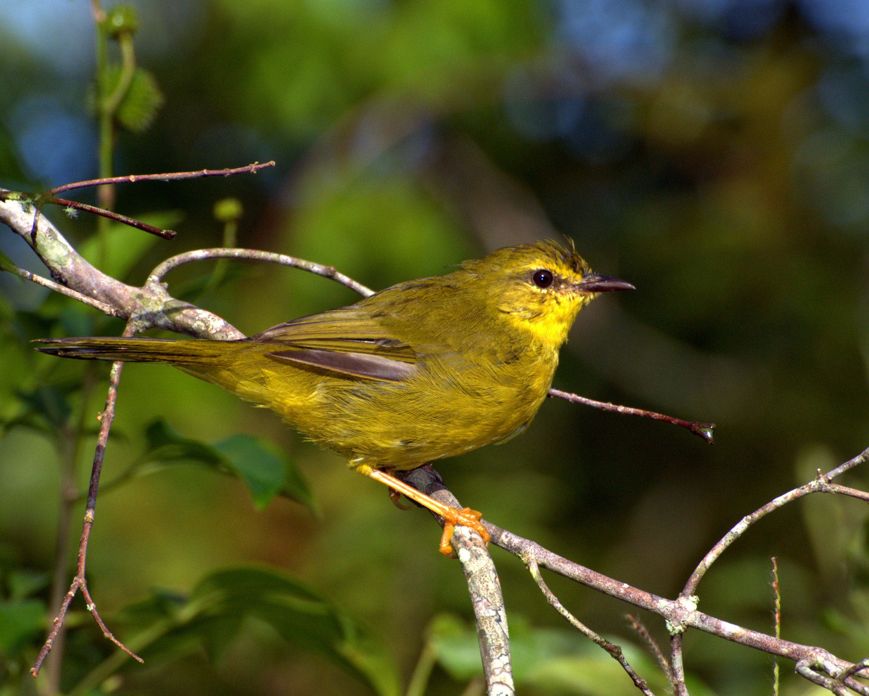 Flavescent Warbler - (Basileuterus flaveolus)